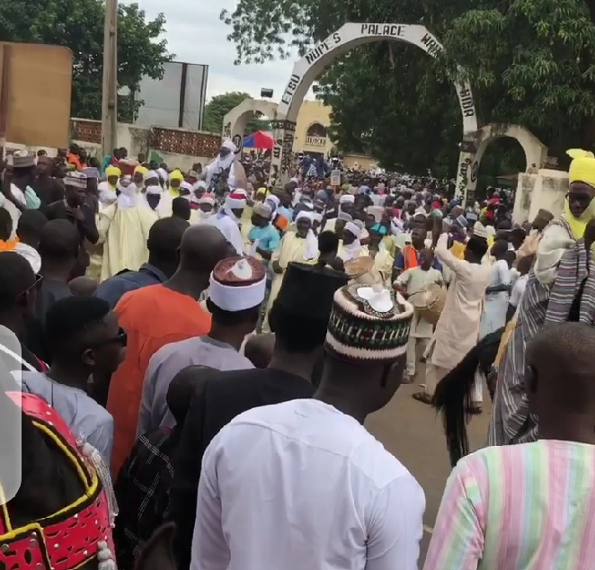 The Katamba Entrance Of The Palace Of Etsu Nupe This media shows a cultural heritage object of Nigeria with the Wikidata-ID: d: {1 }| {1 }